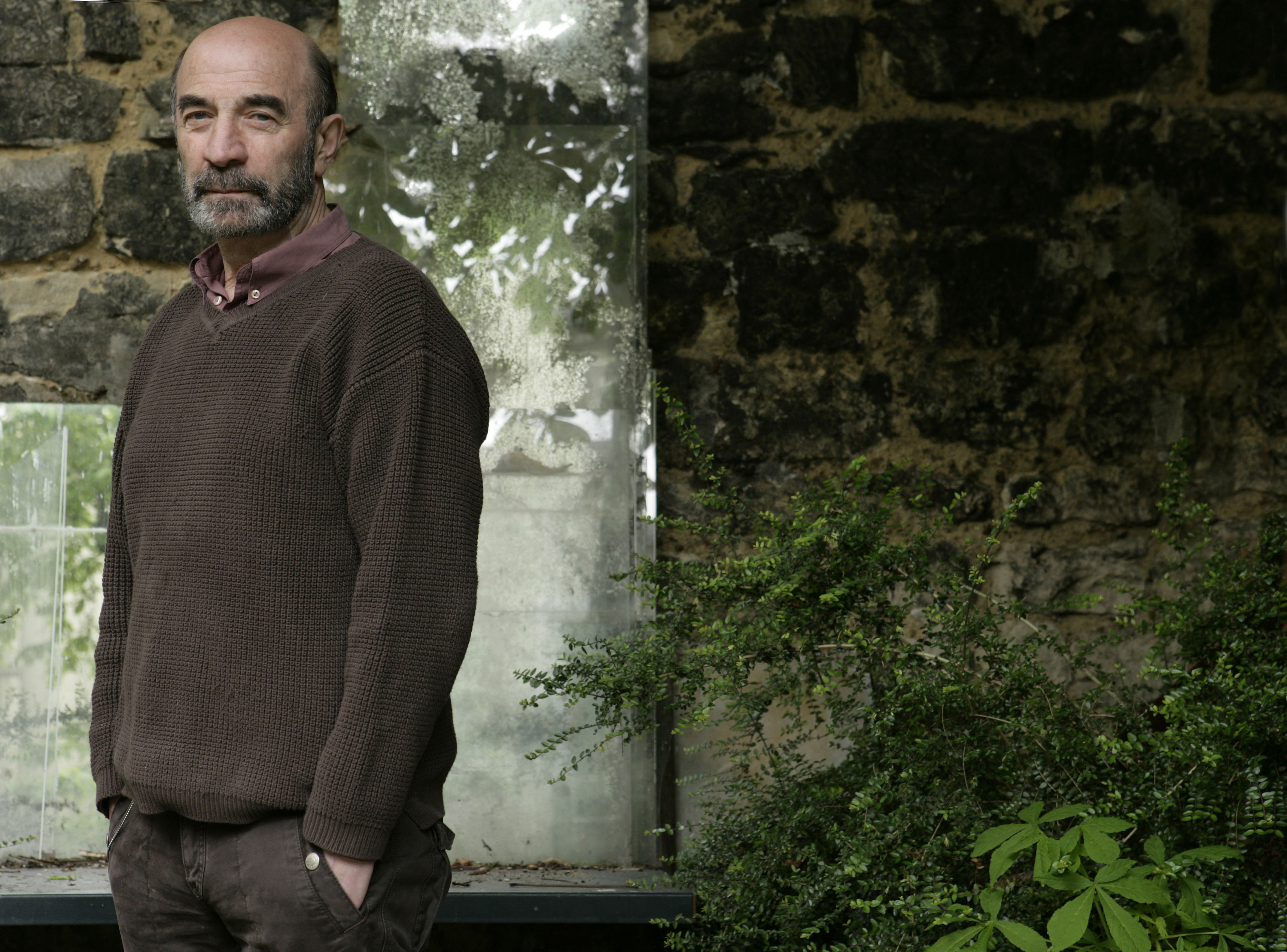 a painter Boris Zaborov in his garden